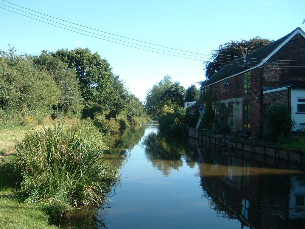 Coventry Canal near Fradley. Photograph taken by Scu98rkr in August 2004, mid-afternoon.